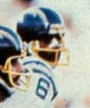 San Diego Chargers running back Chuck Muncie pictured in an offensive play in the 1981 AFC Divisional Playoff Game on January 2, 1982.